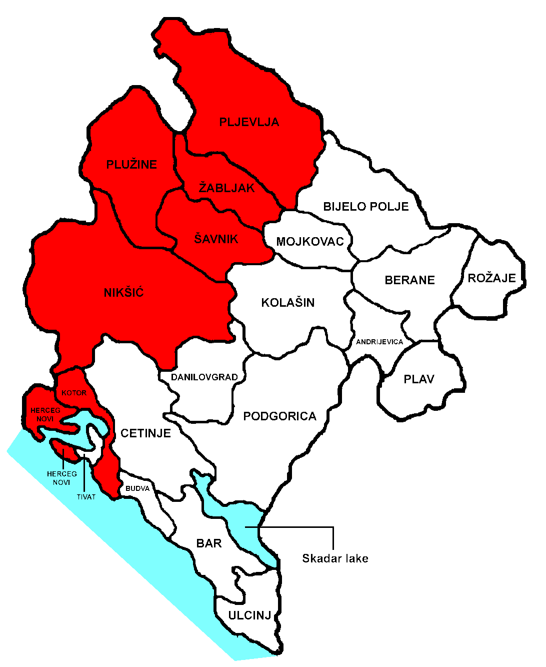 Old Herzegovina. Self-made